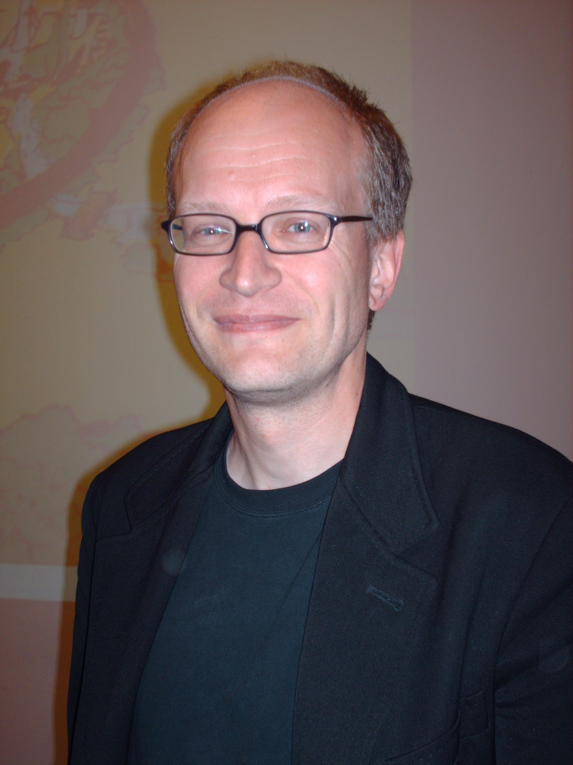 Andreas Platthaus check usage